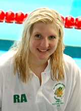 Rebecca Adlington winner of 2 gold medals in swimming at the Beijing 2008 Olympics depicted person: Rebecca Adlington (age: 19.2)